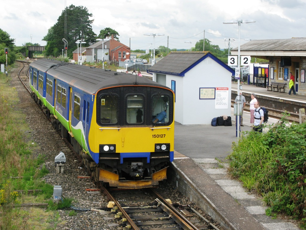 First Great Western 150217 at Castle Cary, Somerset, England, with a Heart of Wessex Line train from Weymouth to Gloucester.